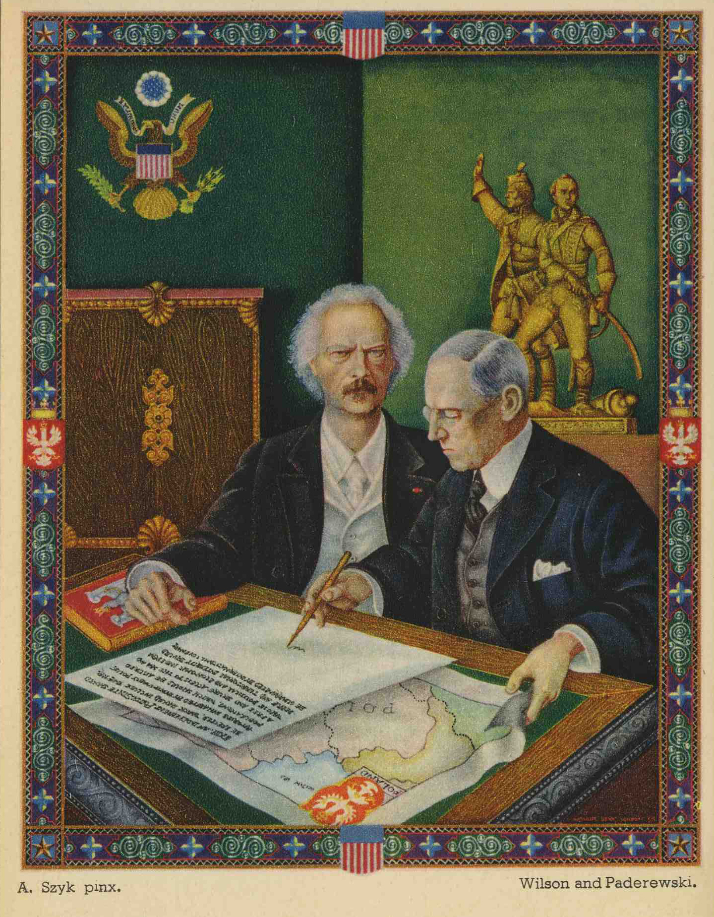 In anticipation of the 1939 World’s Fair in New York, the government of Poland commissioned Arthur Szyk to paint the large series The Glorious Days of the Polish-American Fraternity, which examined the relationship between Poland and the United States through significant contributions made by individual Poles to the history of the U.S. This work celebrates the friendship between President Woodrow Wilson and Ignacy Paderewski (the Polish premier), who both worked for freedom and democracy. Paderewski drafted the 13th of Wilson’s 14 points, which argued for peace post-World War I, calling for a free and independent Poland. The original art hung in the Polish Pavilion at the World’s Fair and was reproduced on postcards printed in Kraków.